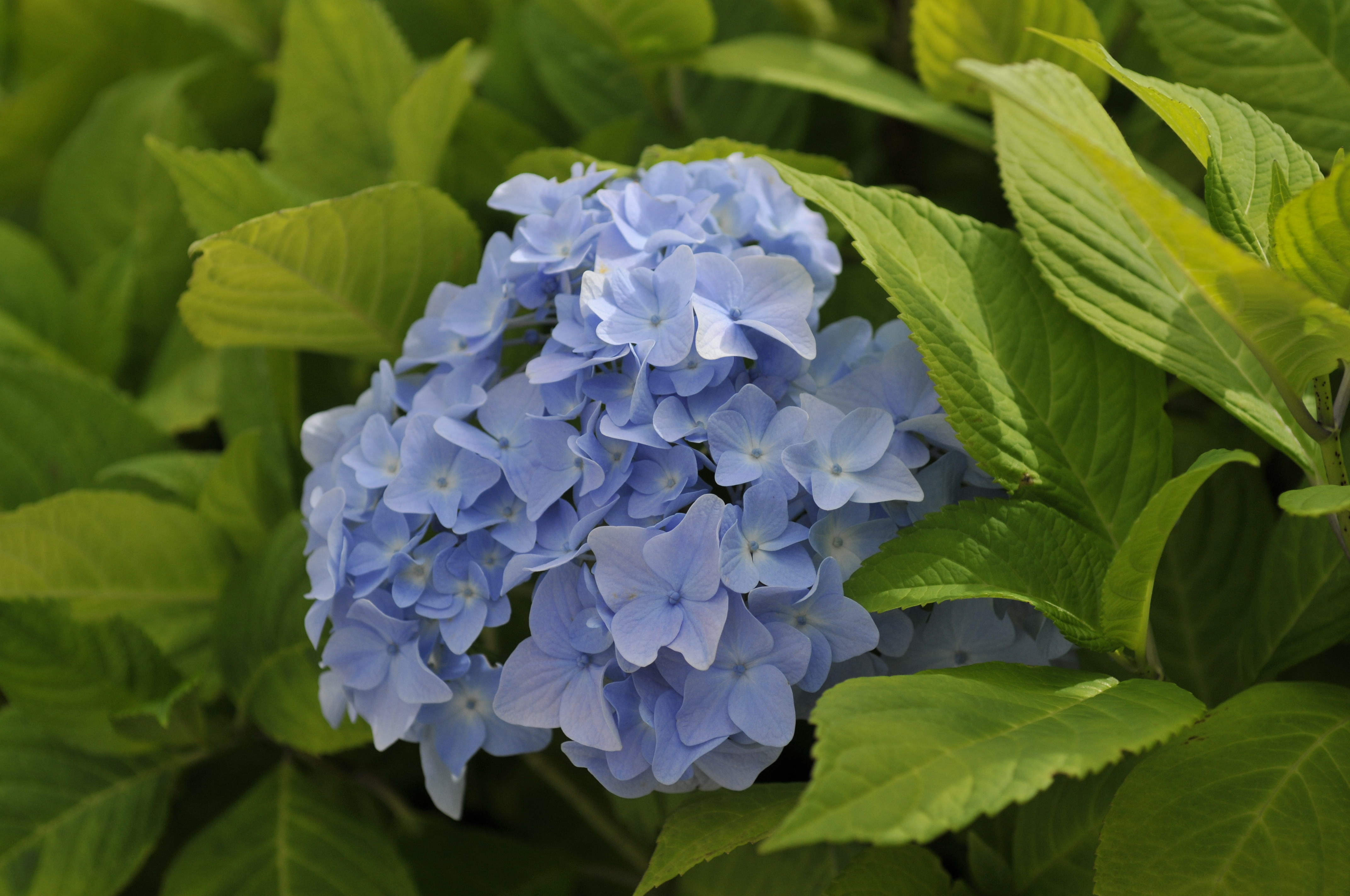 Blue Hortensia